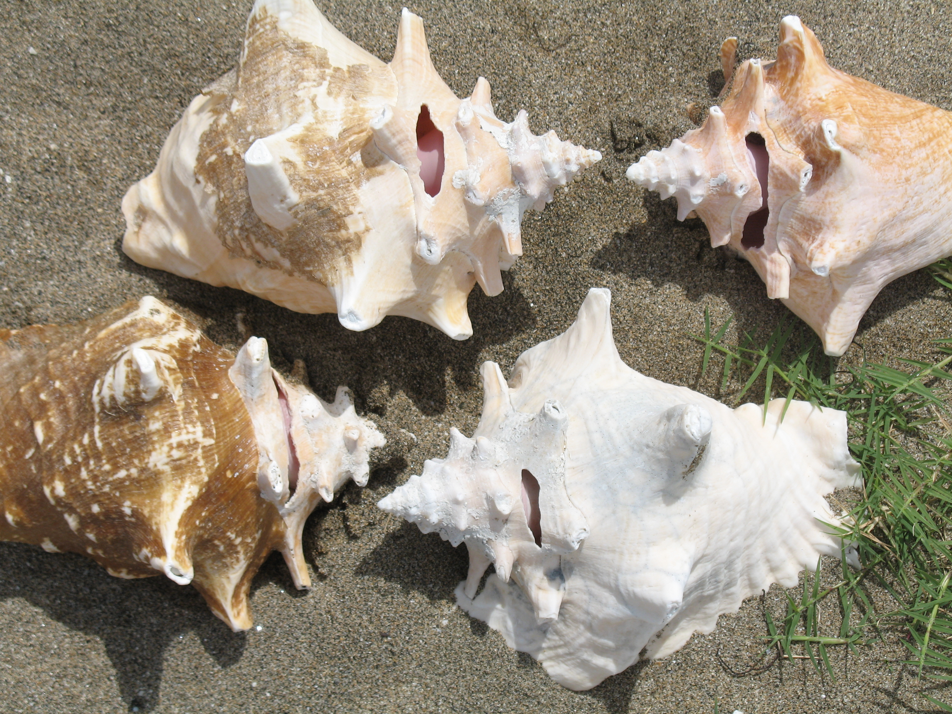 Four subadult shells of Lobatus gigas from Nevis, all showing the cut used to harvest the meat